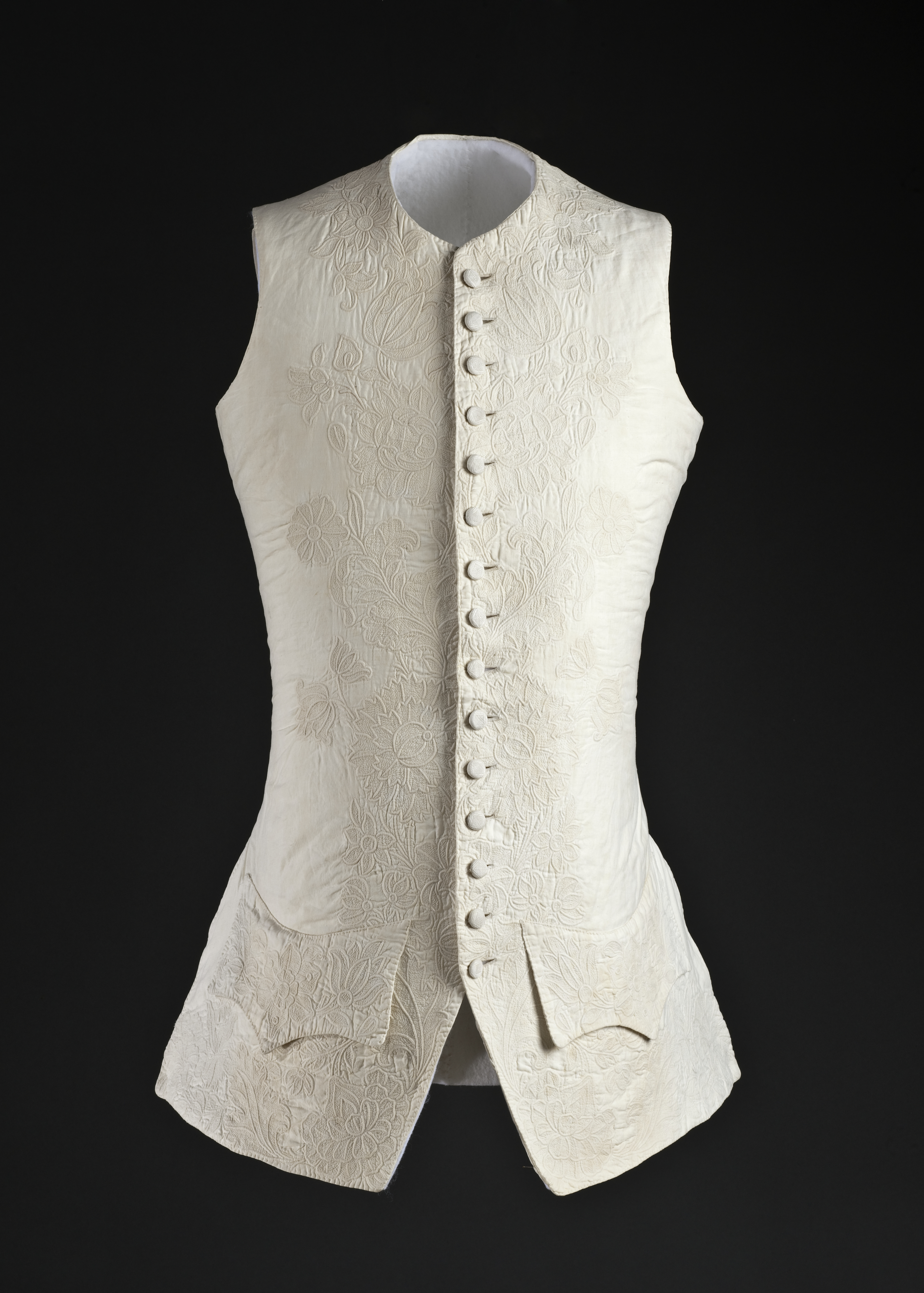 Man’s waistcoat, possibly England, circa 1760. Cotton plain weave with cotton corded quilting (Marseilles quilting).